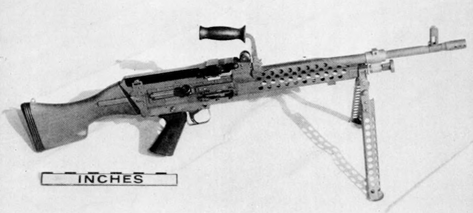 MINIMI prototype being evaluated by the US Infantry Board, before it has been officially designated XM249